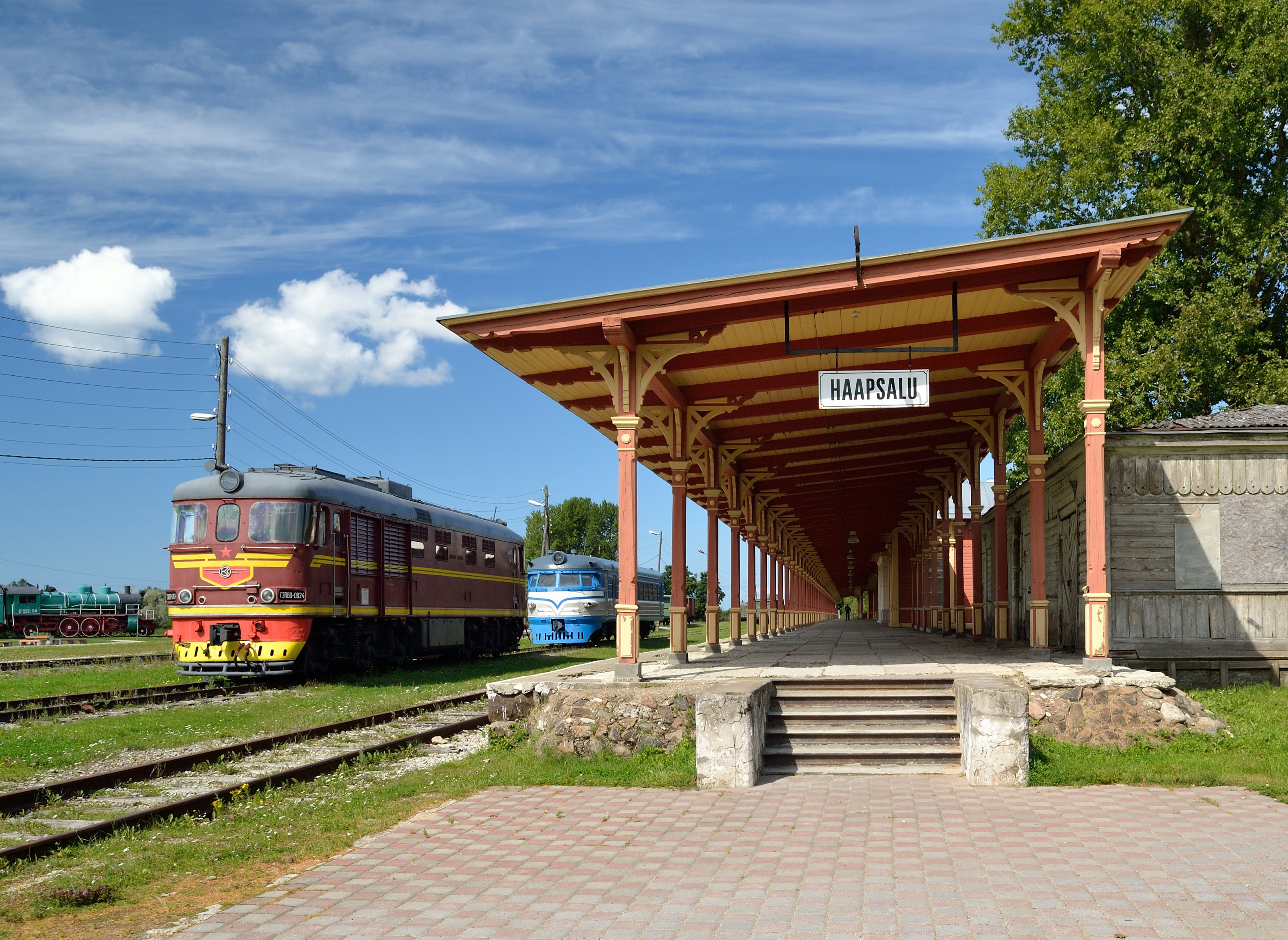 Haapsalu station with covered platform in Estonia. Built in 1906–1907, length 216 m, it was at the time of its unveiling the longest in Europe. The station itself is today cut off from the railway network, but operates as part of a railway museum.